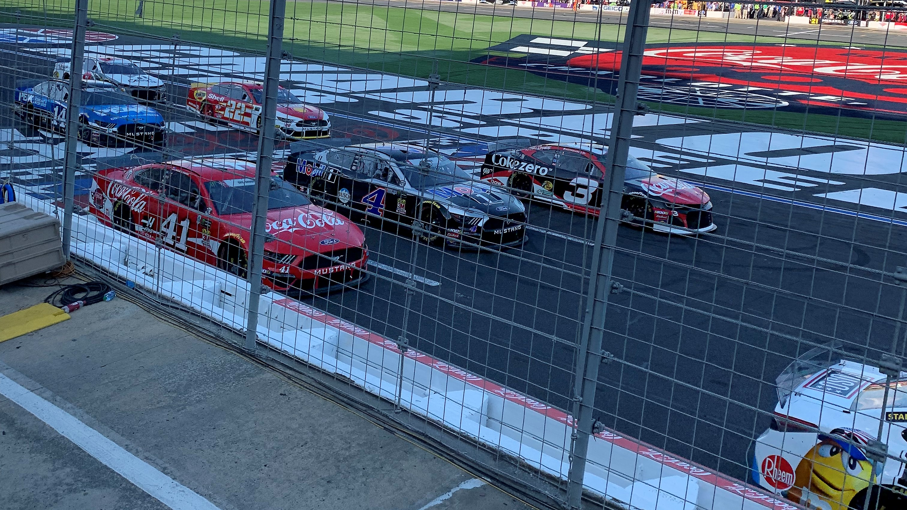 Daniel Suárez during the pace laps for the start of the 2019 Coca Cola 600